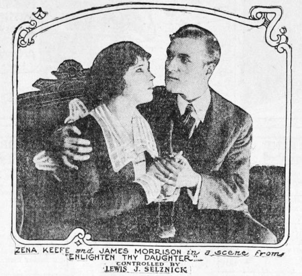 Still of 1917 silent film, Enlighten My Daughter, with Zena Keefe and James Morrison. Picture was published in The Ogden Standard on September 20, 1917.